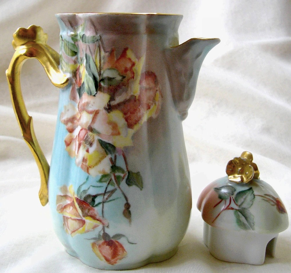 Porcelain of Limoges, Chocolate Pot